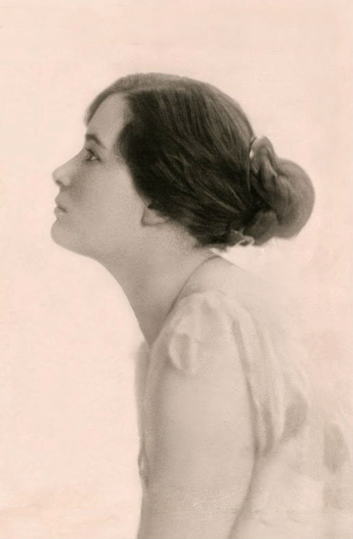 Rosita Renard, New York 1917.